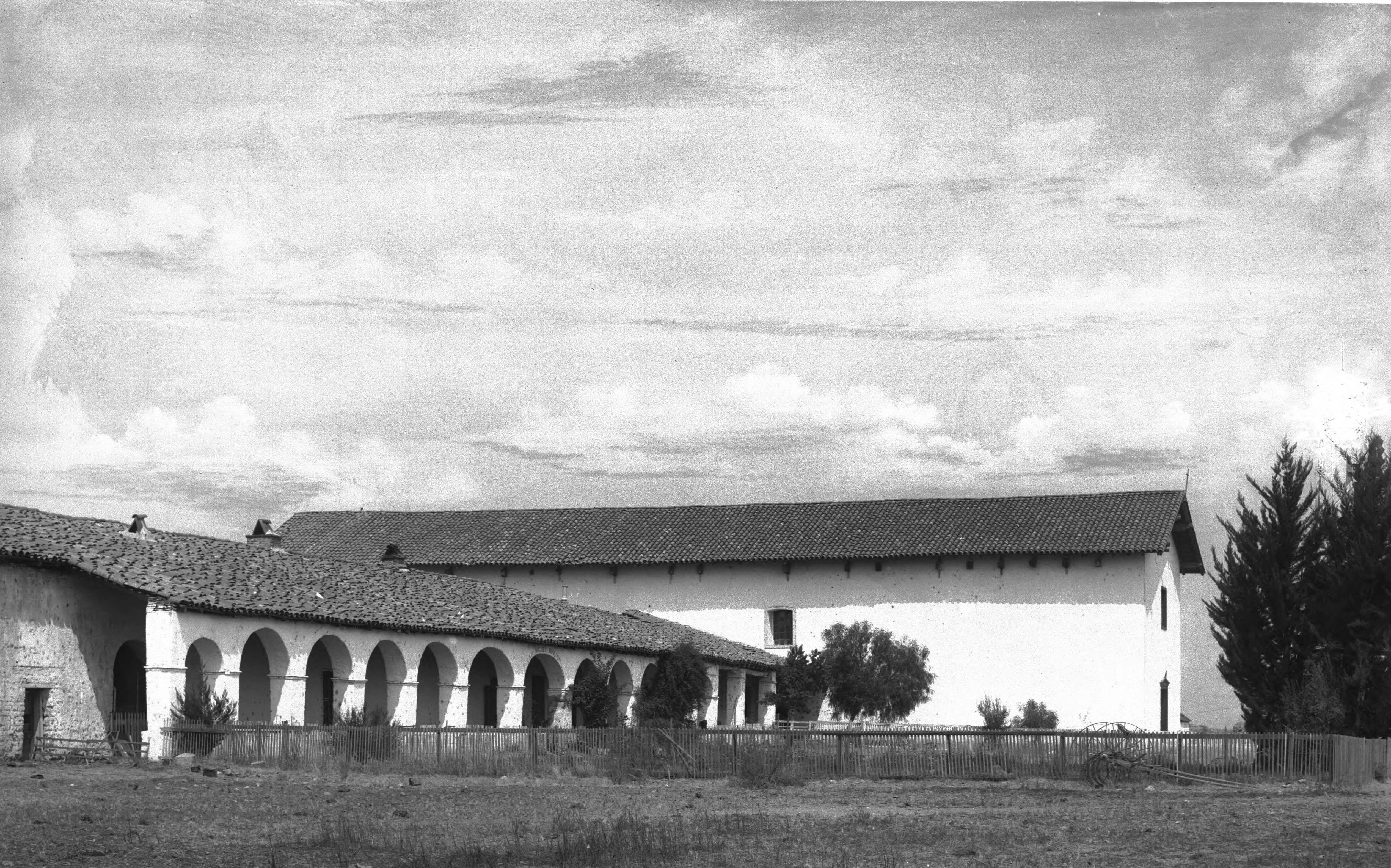 General view of Mission San Miguel Arcangel from the southeast, ca.1904 Photograph of a general view of Mission San Miguel Arcangel, California, from the southeast (south?). A picket fence encloses an area bounded by an exterior corridor with arches supporting the tile roof and the taller church behind. The mission is in a state of very good repair externally. Call number: CHS-2245 Photographer: Pierce, C.C. (Charles C.), 1861-1946 Filename: CHS-2245 Coverage date: circa 1904 Part of collection: California Historical Society Collection, 1860-1960 Format: glass plate negatives Type: images Part of subcollection: Title Insurance and Trust, and C.C. Pierce Photography Collection, 1860-1960 Repository name: USC Libraries Special Collections Accession number: 2245 Microfiche number: 1-142-24 Archival file: chs_Volume92/CHS-2245.tiff Repository address: Doheny Memorial Library, Los Angeles, CA 90089-0189 Format (aacr2): 2 photographs : glass photonegative, photoprint, b&w ; 21 x 26 cm. Rights: Digitally reproduced by the USC Digital Library; From the California Historical Society Collection at the University of Southern California Subject (adlf): religious facilities Project: USC Repository Contributing entity: California Historical Society Date created: circa 1904 Publisher (of the digital version): University of Southern California. Libraries Format (aat): photographic prints; photographs Geographic subject (state): California Subject (file heading): Missions -- Mission San Miguel Arcangel Legacy record ID: chs-m15364; USC-1-1-1-14093 Access conditions: Send requests to address or e-mail given. Phone (213) 821-2366; fax (213) 740-2343. Geographic subject (county): San Luis Obispo Subject (lcsh): Missions, Spanish Subject: San Miguel Arcangel Mission